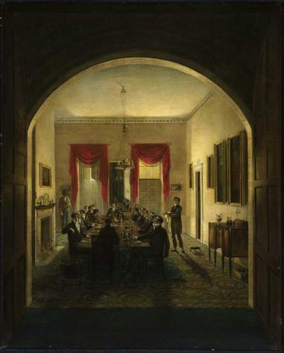 The Dinner Party. about 1821. By Henry Sargent, American, 1770–1845. 156.53 x 126.36 cm (61 5/8 x 49 3/4 in.). Oil on canvas. Museum of Fine Arts, Boston.